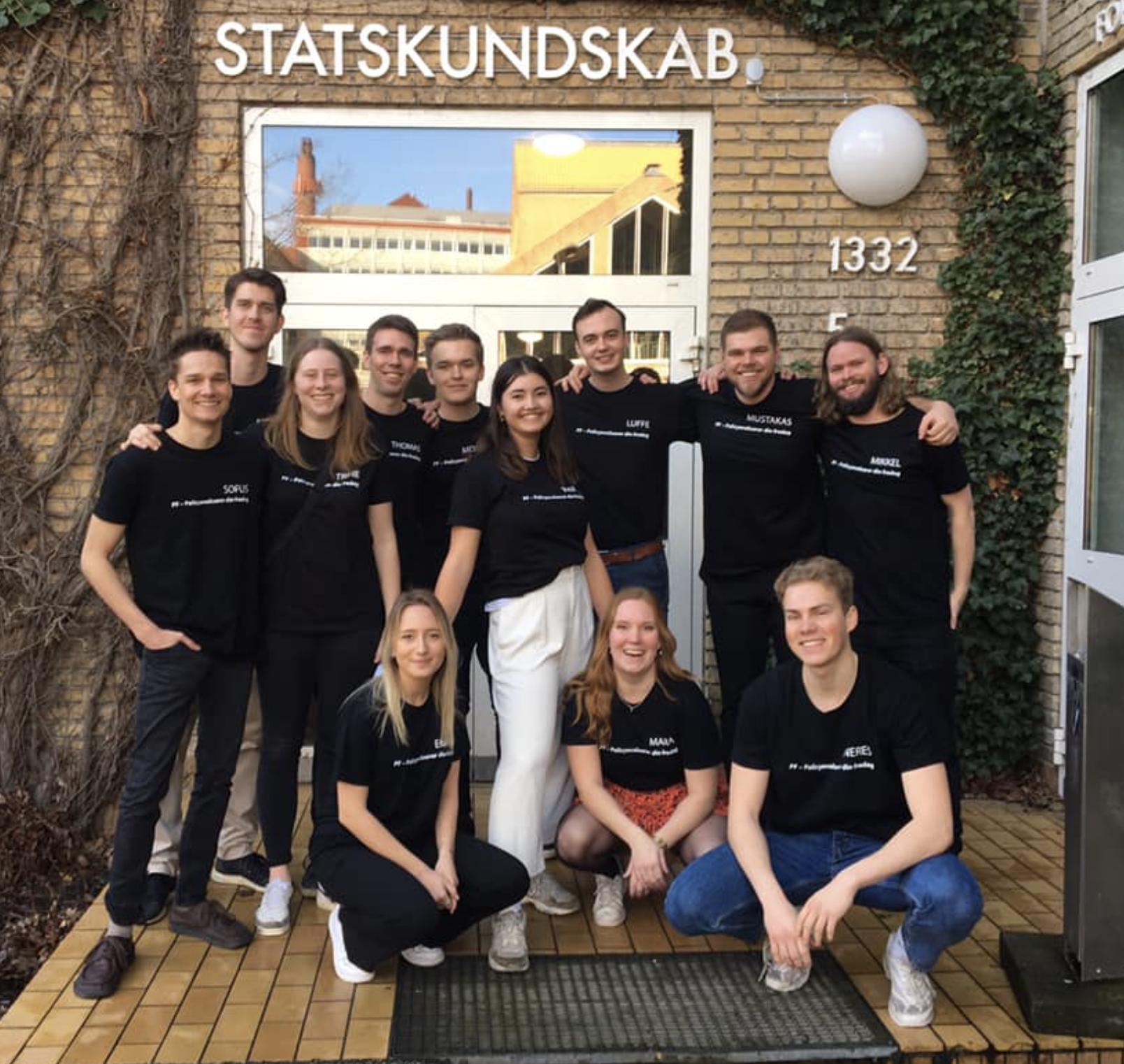 Slogan for board